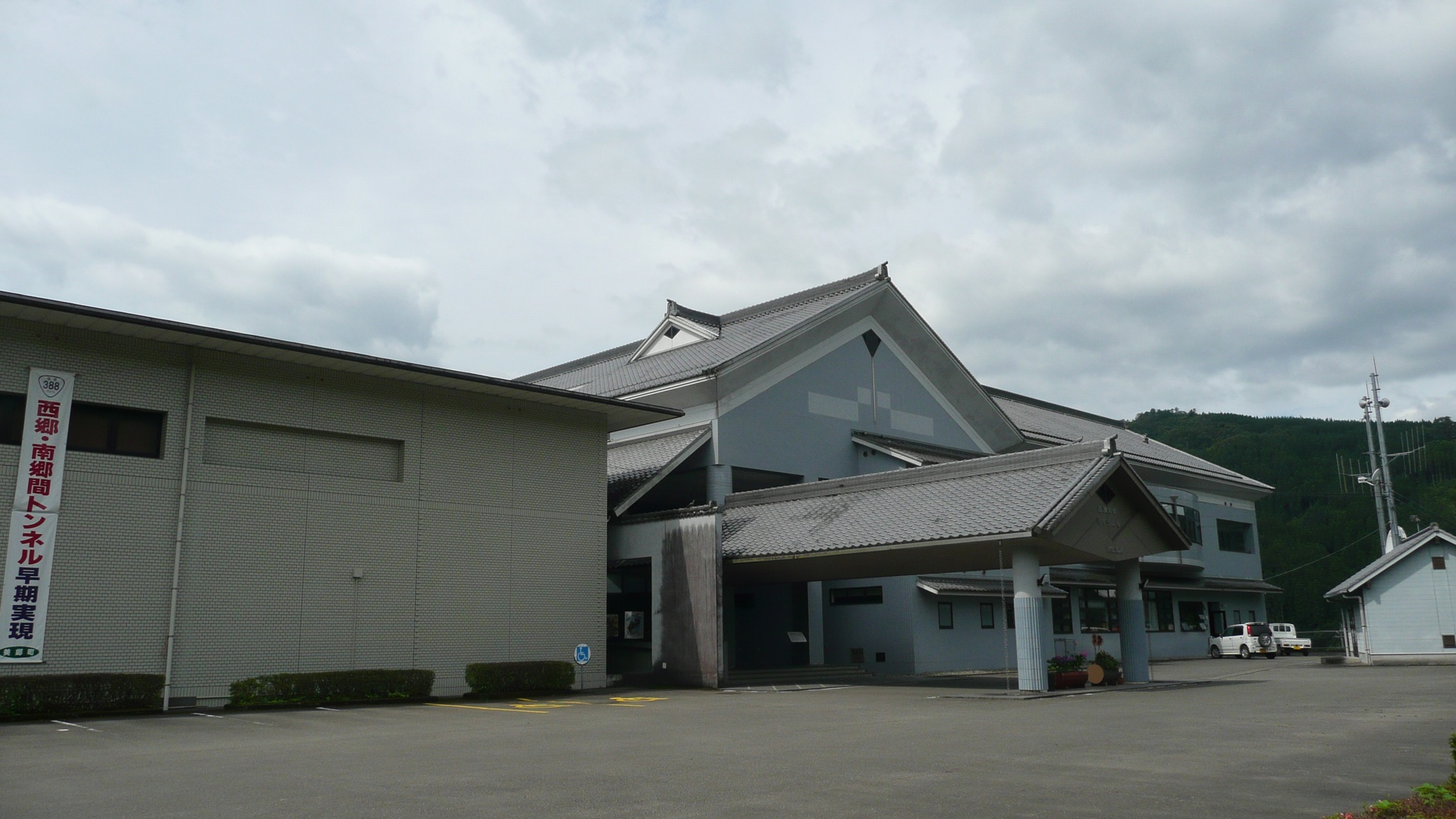 Misato Town Nangō Branch (Miyazaki, Japan)